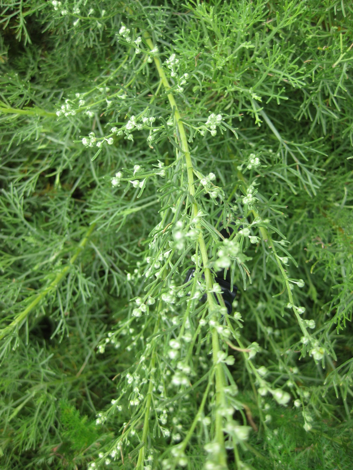 Photographed at the Royal Botanic Gardens Sydney (Australia) in January